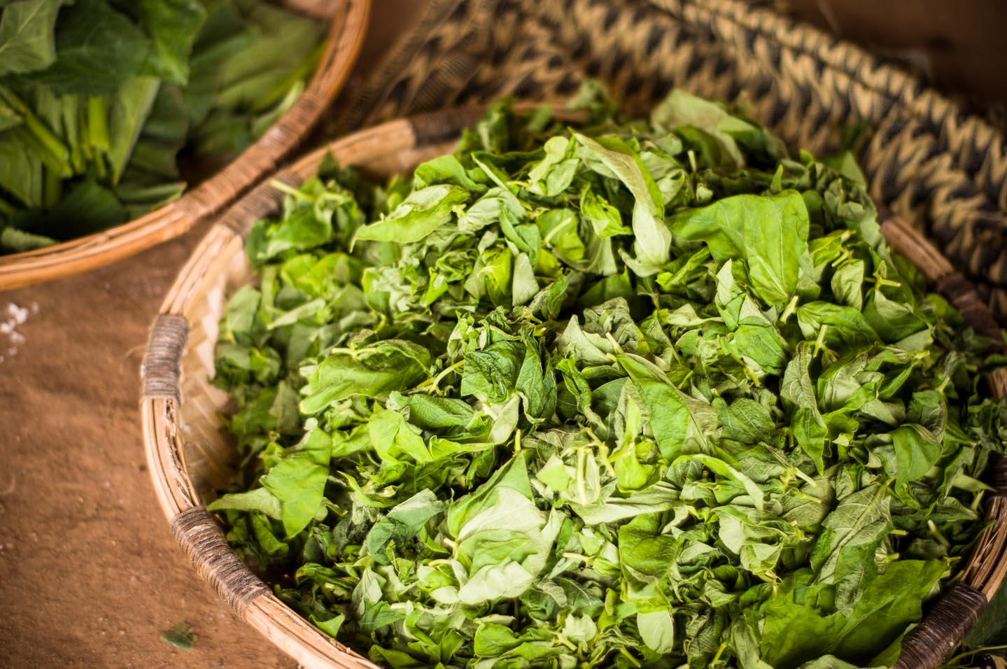 Greens to be cooked and accompany ugali This is an image of food from Mozambique